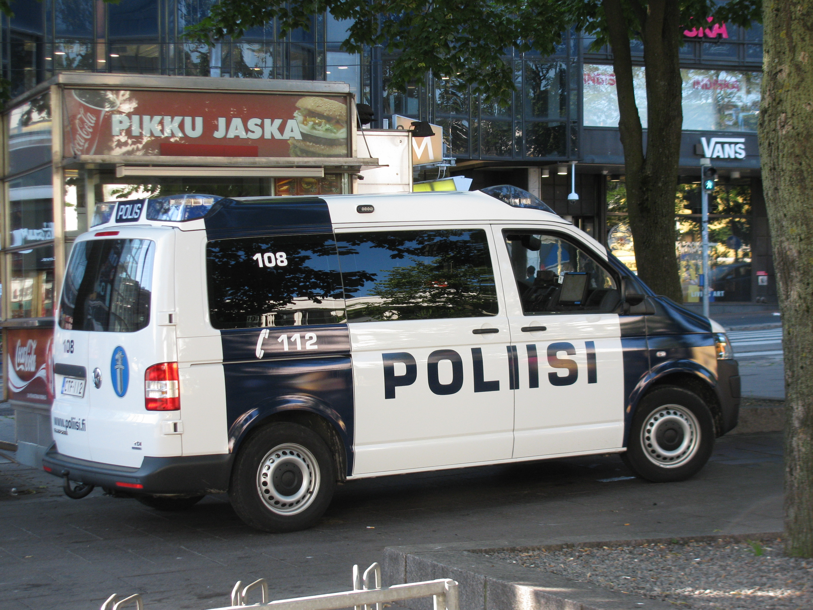 Finnish police car in Helsinki